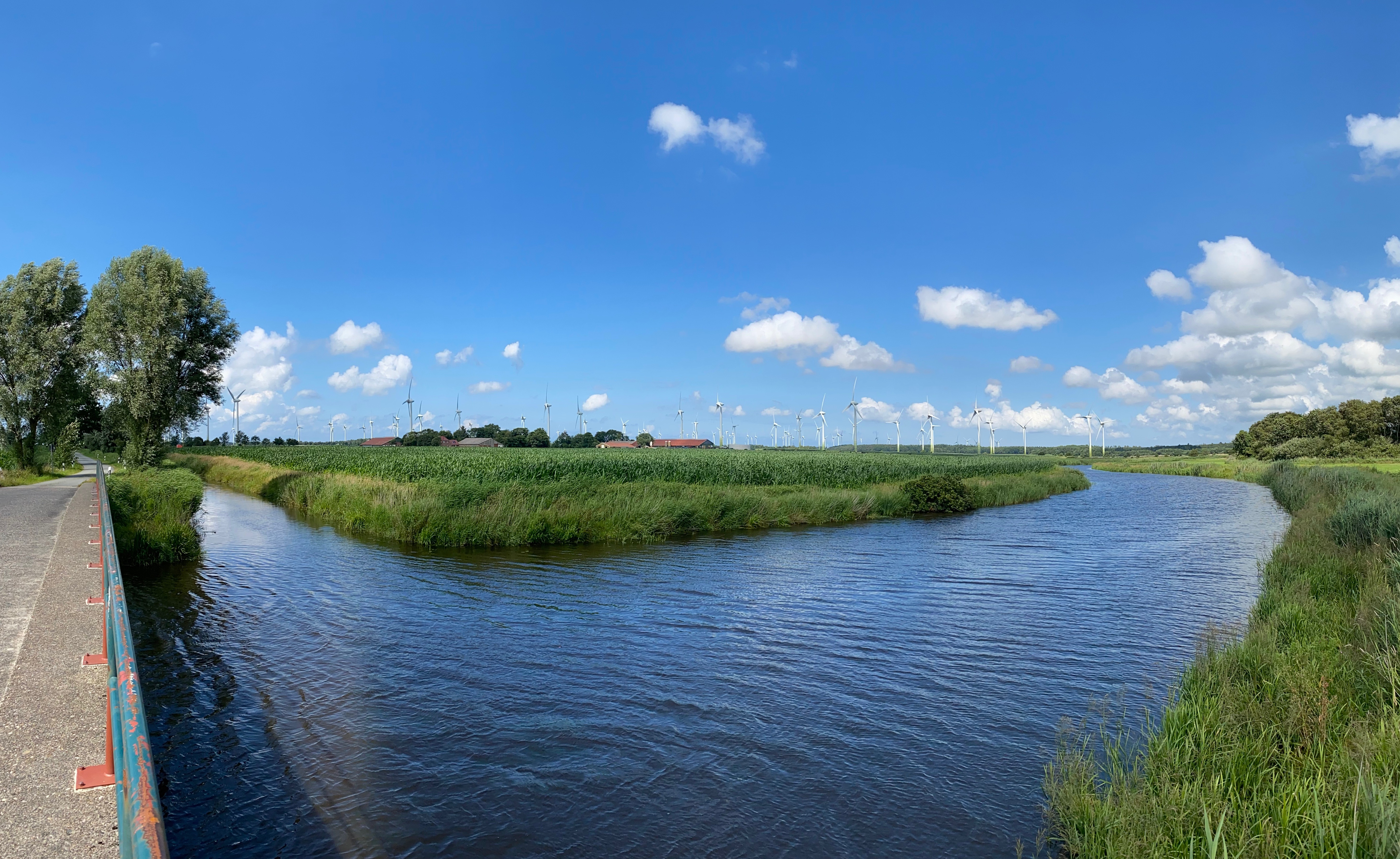 Norden (Ostermarsch), Germany: Outflow of the Sieltog in the Norder Tief